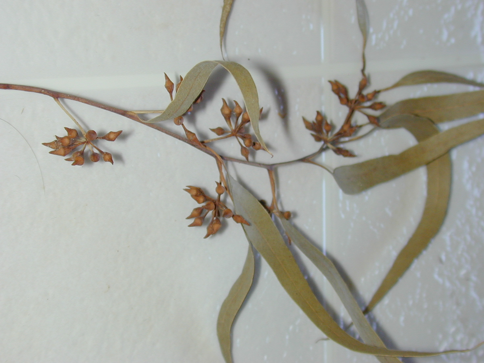 Eucalyptus camaldulensis (operculums and leaves). Location: Maui, Hobdy collection